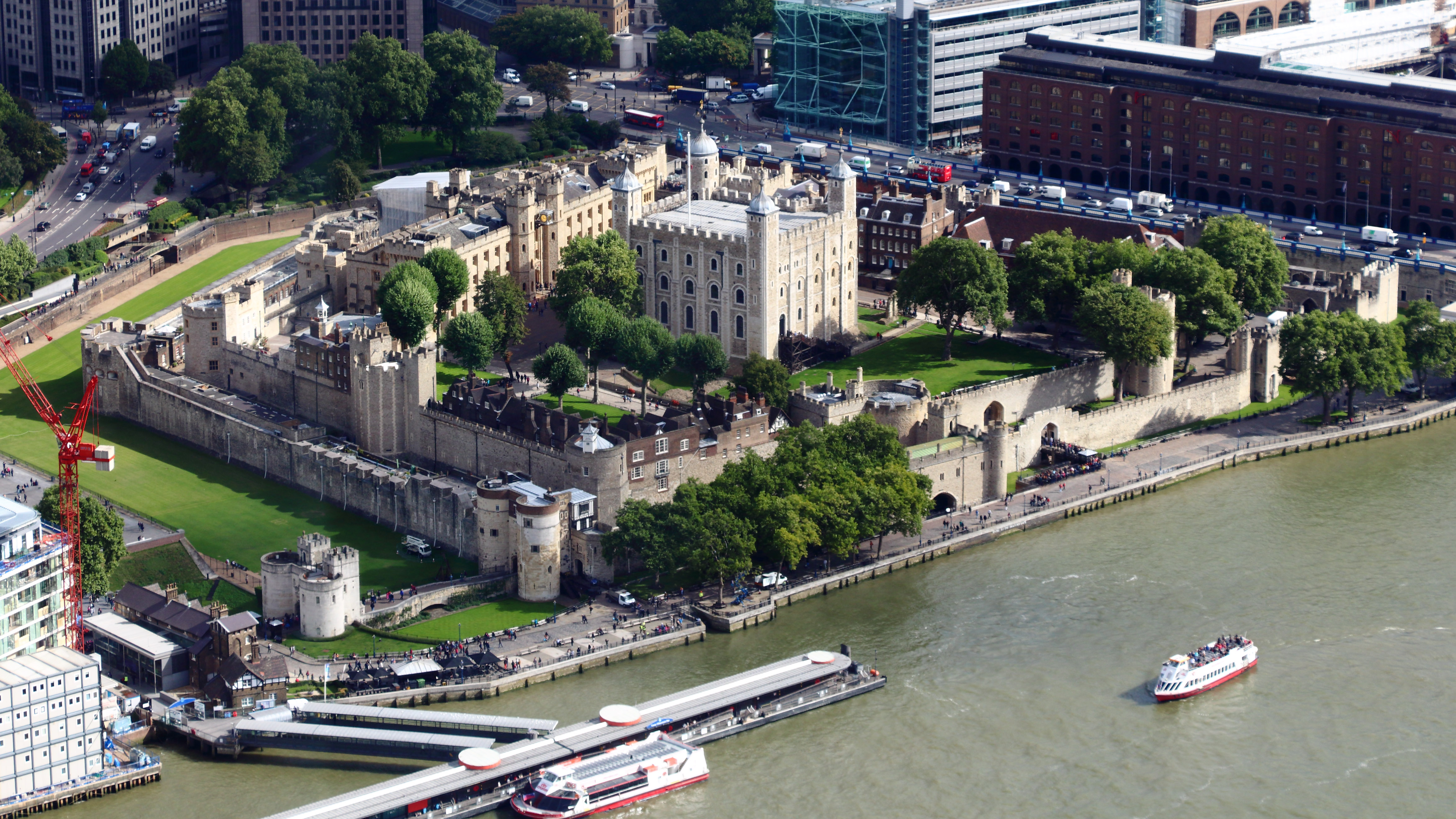 The view of the Tower of London from The Shard to the south west